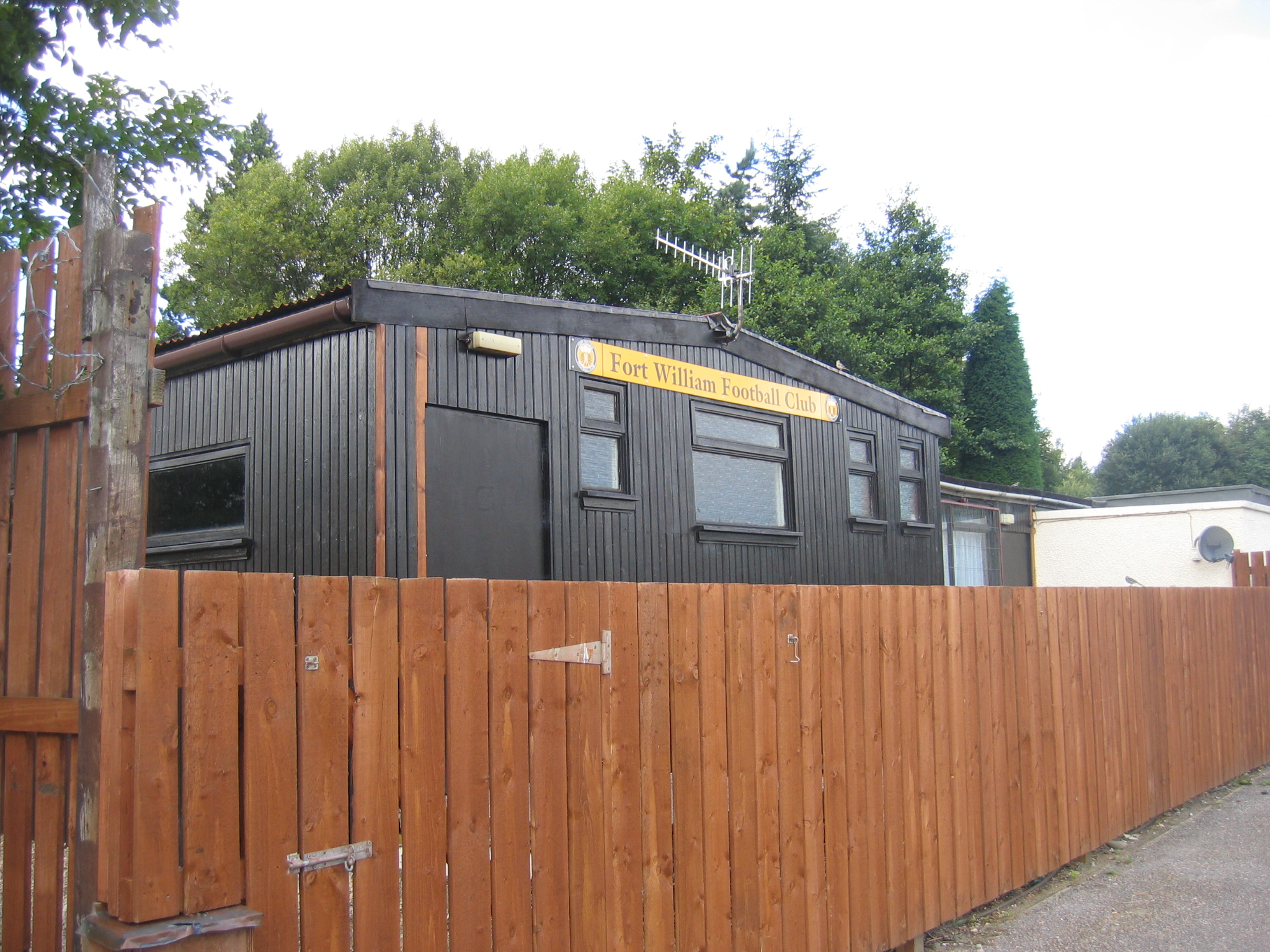 Club shop at Fort William FC.